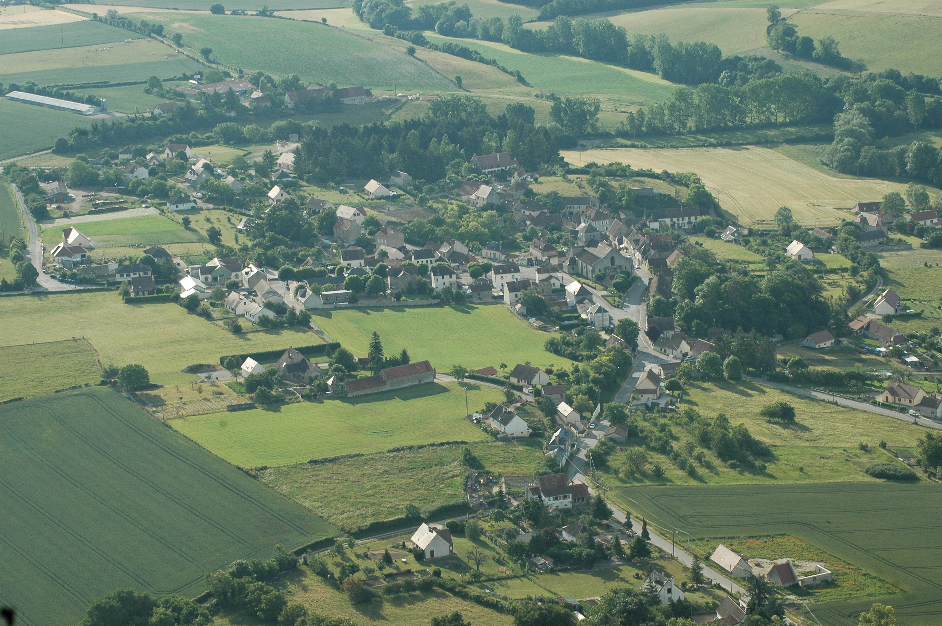 Aerial view of Besson, Allier, France.